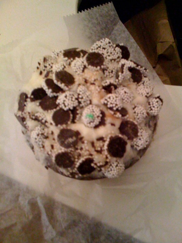 Cupcake topped with Sno-Caps candies - small pieces of semi-sweet chocolate candy covered with white nonpareils